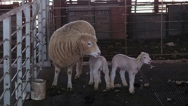 Polled dorsets at the North Carolina State University small ruminant group farm